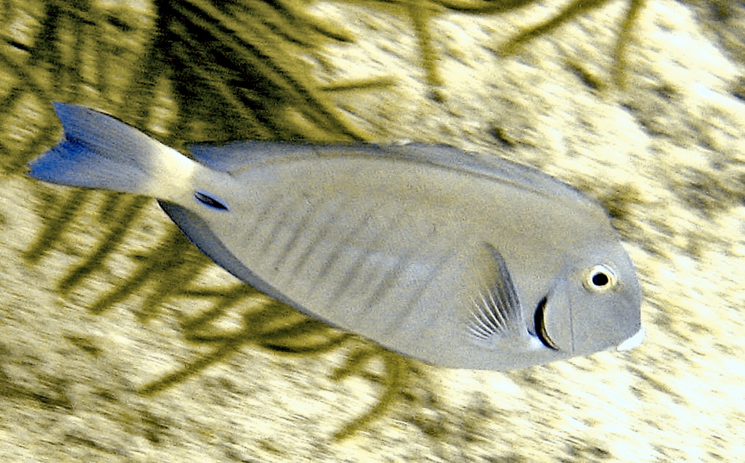 A doctorfish swimming around outside Puerto Morelos, Yucatan, Mexico. Picture taken during a Norwegian College of Fisheries Science, UiT, advanced course in marine ecology during January/February 2007.